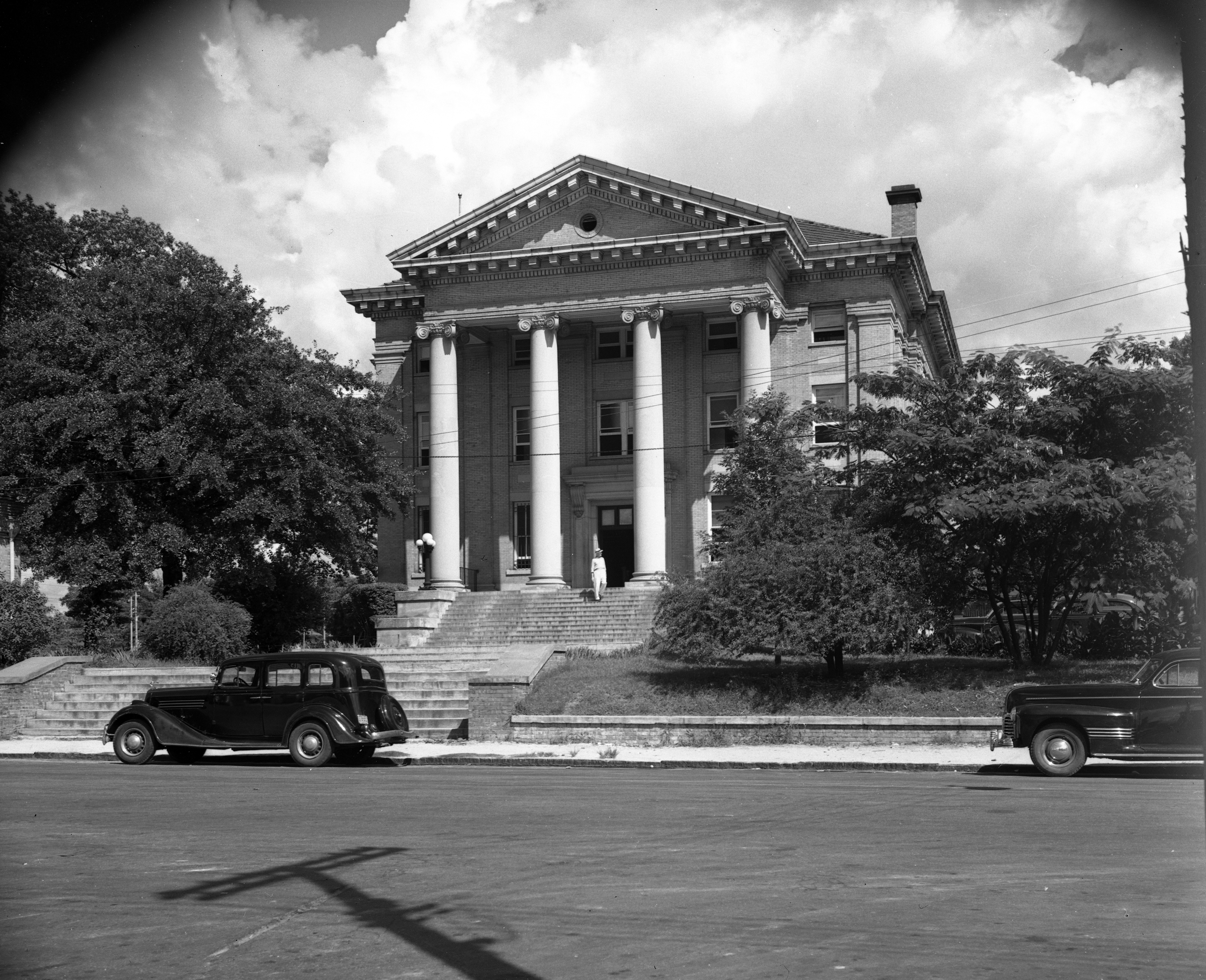 Wayne County Courthouse, Goldsboro, NC, August 1942, by Patrick. Conservation and Development Department, Travel and Tourism photo files, State Archives of North Carolina.